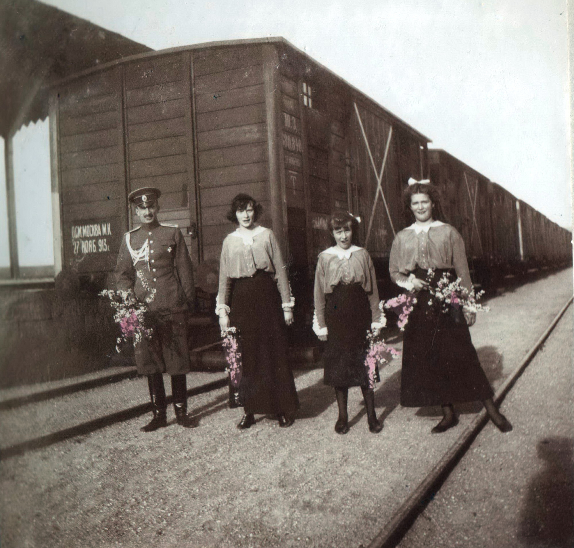 An officer and the Grand Duchesses Tatiana, Anastasia and Maria Nikolaevna of Russia pick blooming twigs from a shrub at the train station Alma (nowadays Pochtovoe) in the Crimea.